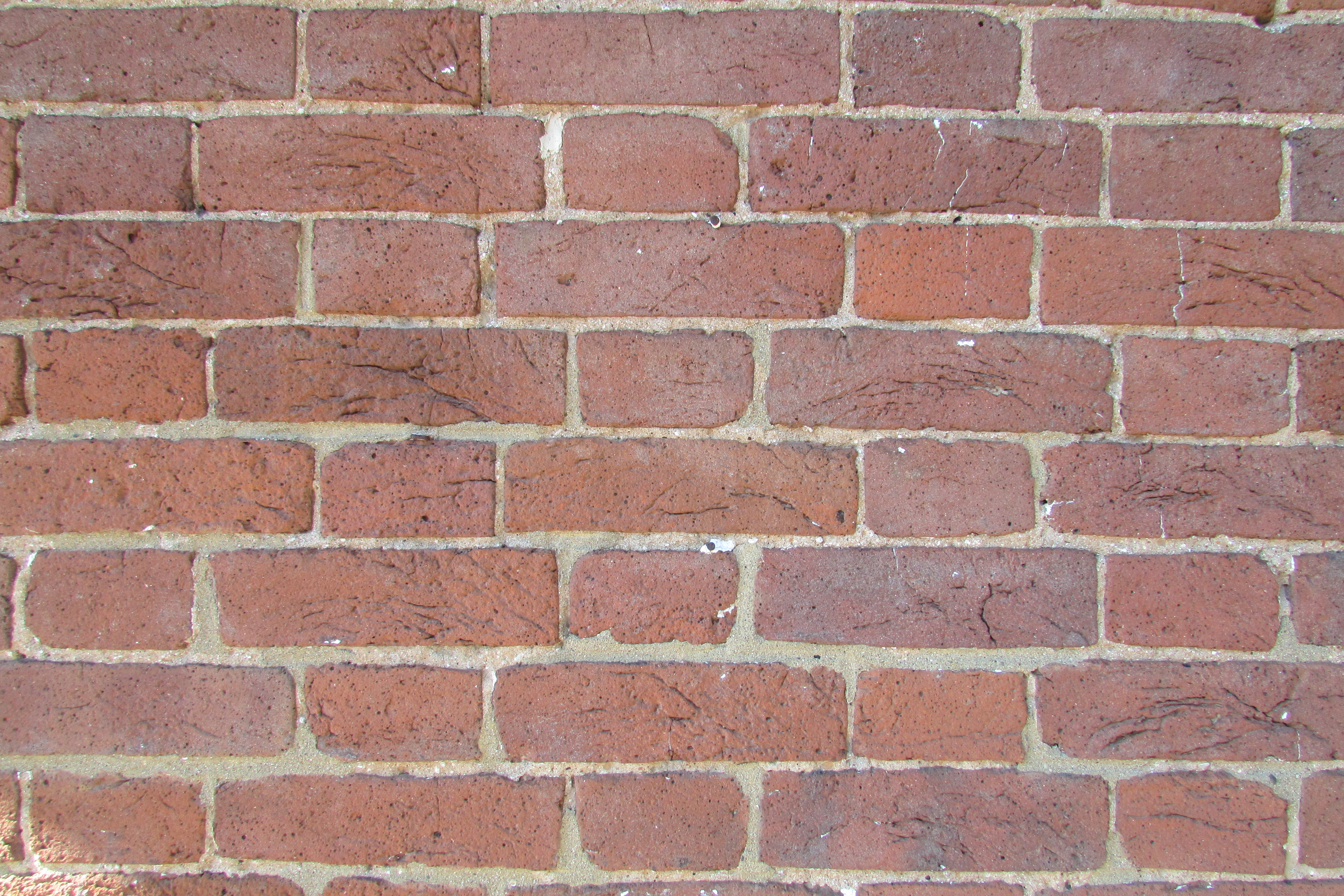 Flemish Bond in the Circa 1809 Hall, Kentucky. Heading Bond bricks are visible on every other stretcher row.